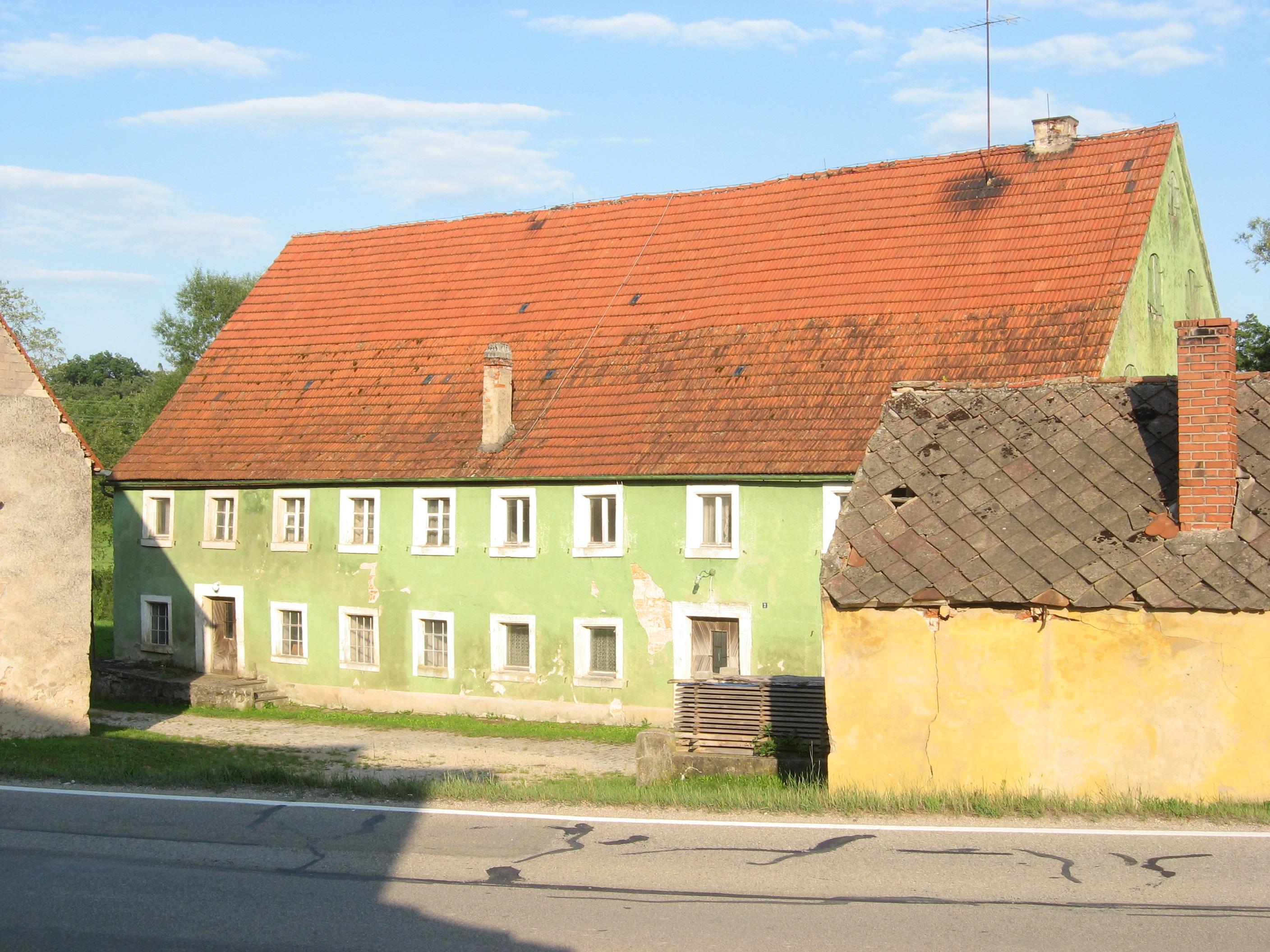 Mill building (Nr. 2) of Seemannsmuehle near Pleinfeld, Bavaria, Germany